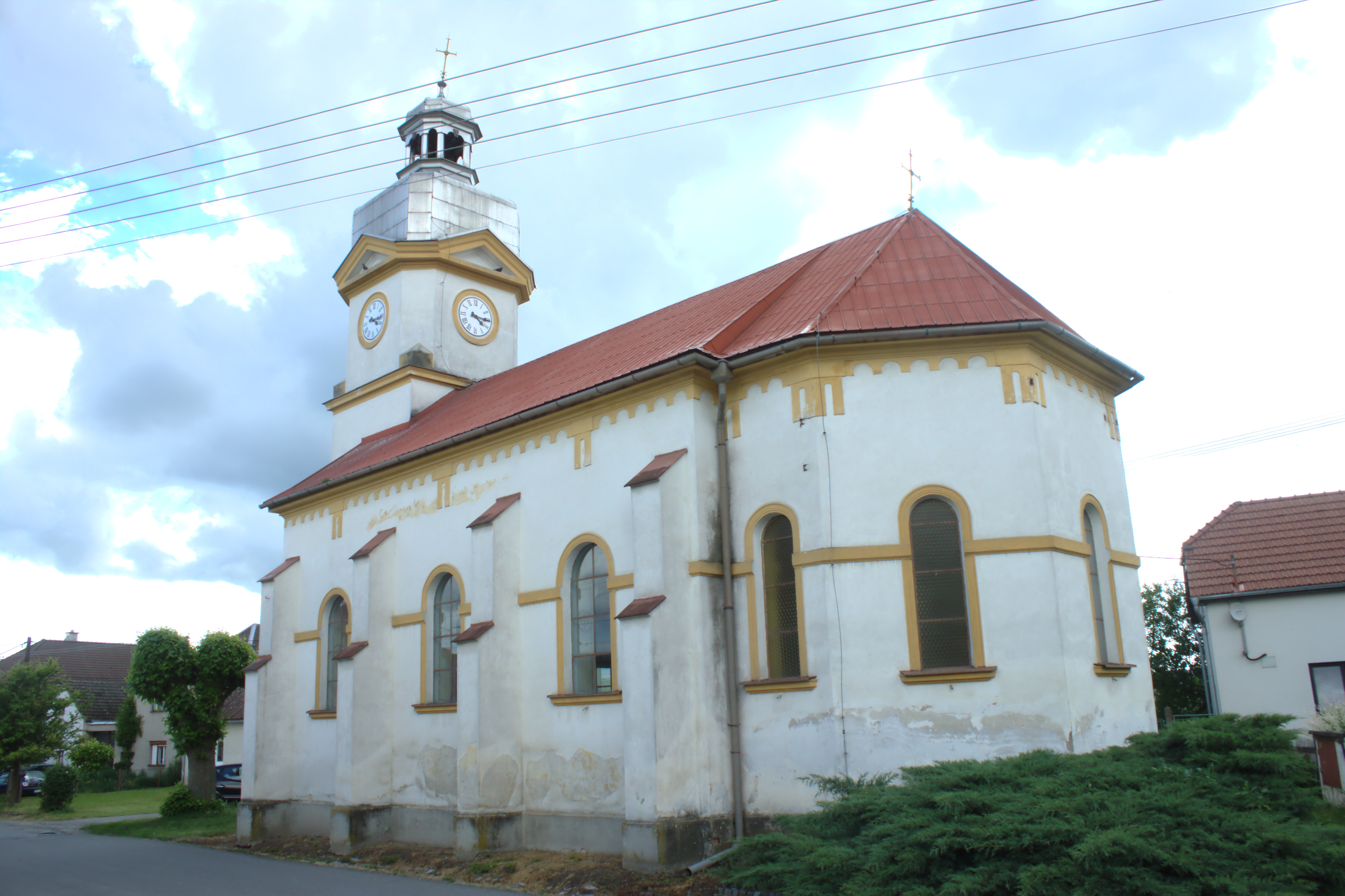 A church in the village of Lazce, Olomouc Region, CZ